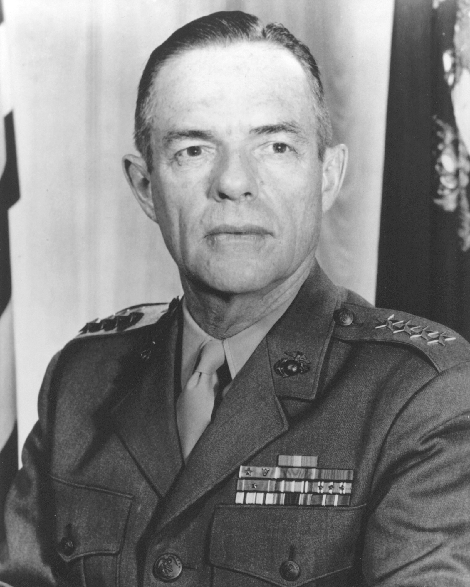 General Wallace M. Greene, USMC, Commandant of the Marine Corps